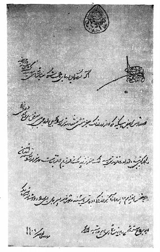 This document answers a petition by the inhabitants of Shakki, who requested that the local ruler Ja'far should be replaced by the son of the former rebel Hajji Chalabi. The request is turned down and the inhabitants are ordered to accept the authority of Ja'far.